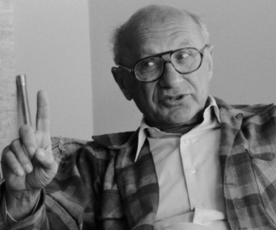 Milton Freidman